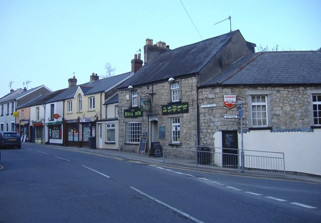 The Buck Inn, Broad Street, Abersychan